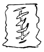 Drawing of palatal plicae of Gudeodiscus messageri.